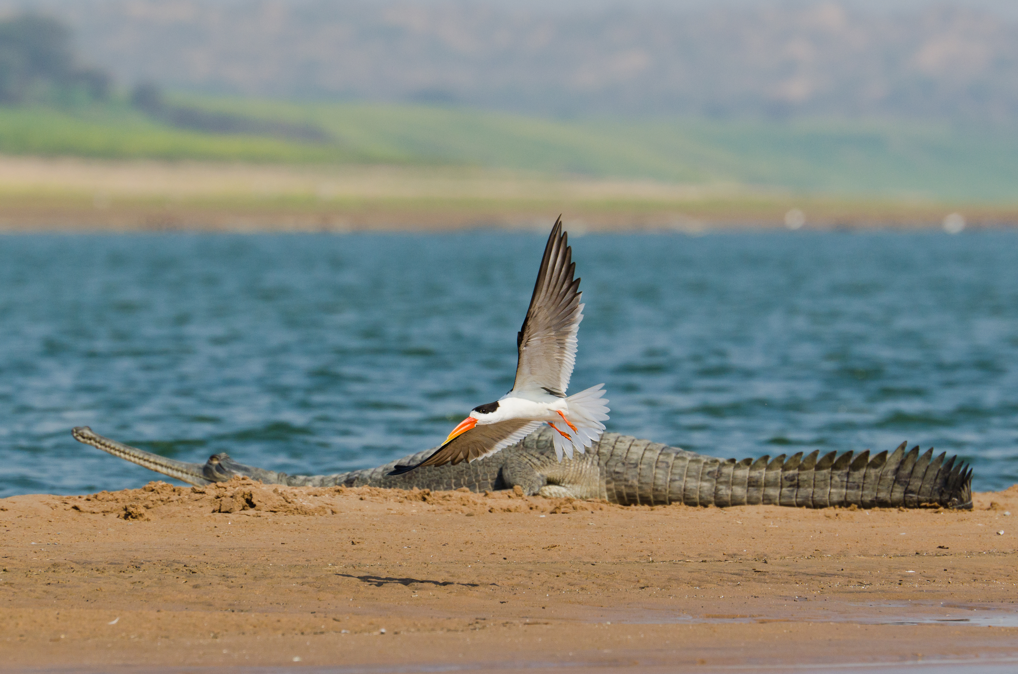 National Chambal Sanctuary is a wonderful place to capture two of the most rare fauna in India. Indian Skimmer birds and Gharial crocodiles..they are seen quite often to roost peacefully on the sand banks amidst the river..the clear blue water,sand banks and these two species make the place one of the most popular wildlife destinations in India. The image was shot at National Chambal Sanctuary a.k.a National Chambal Gharial Wildlife Sanctuary,Dholpur,M.P,India.